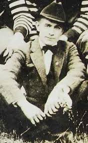 Photo of Walter Flanigan, a co-founder of the National Football League and owner of the league's defunct Rock Island Independents take before 1923.